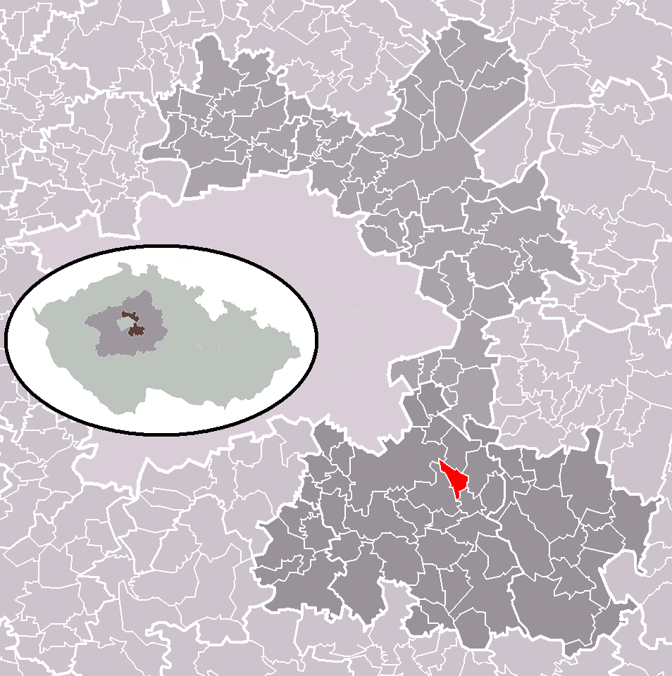 Location of Tehovec municipality within Prague-East District and administrative area of Říčany as a Municipality with Extended Competence.